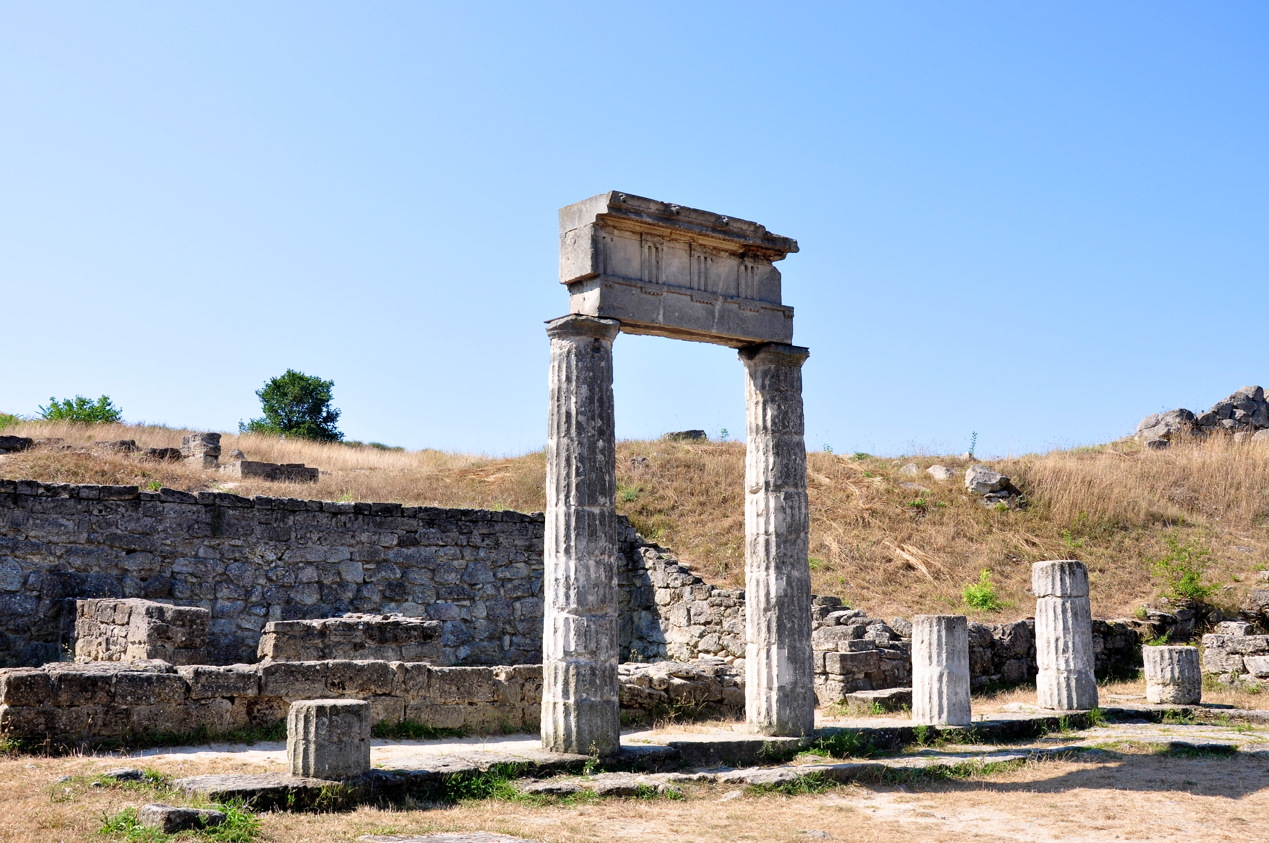 Prytaneion of Panticapaeum, II b.c. (Kerch, Ukraine)